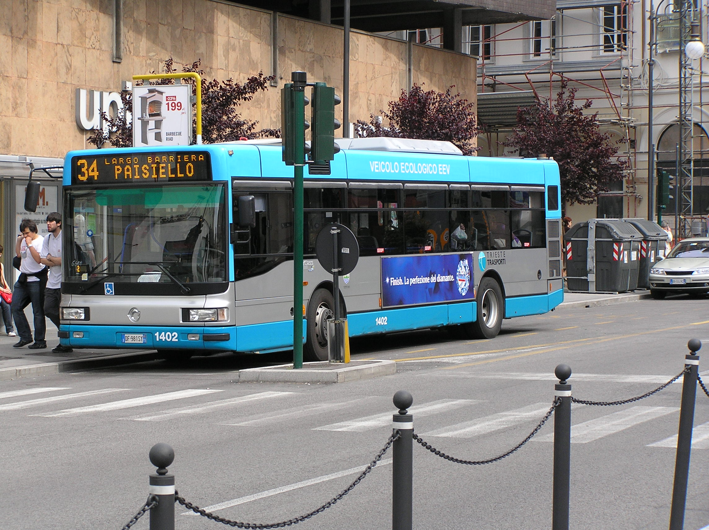 A Trieste Trasporti Irisbus 491E.10.29 CityClass EEV bus (#1402) built 2007.